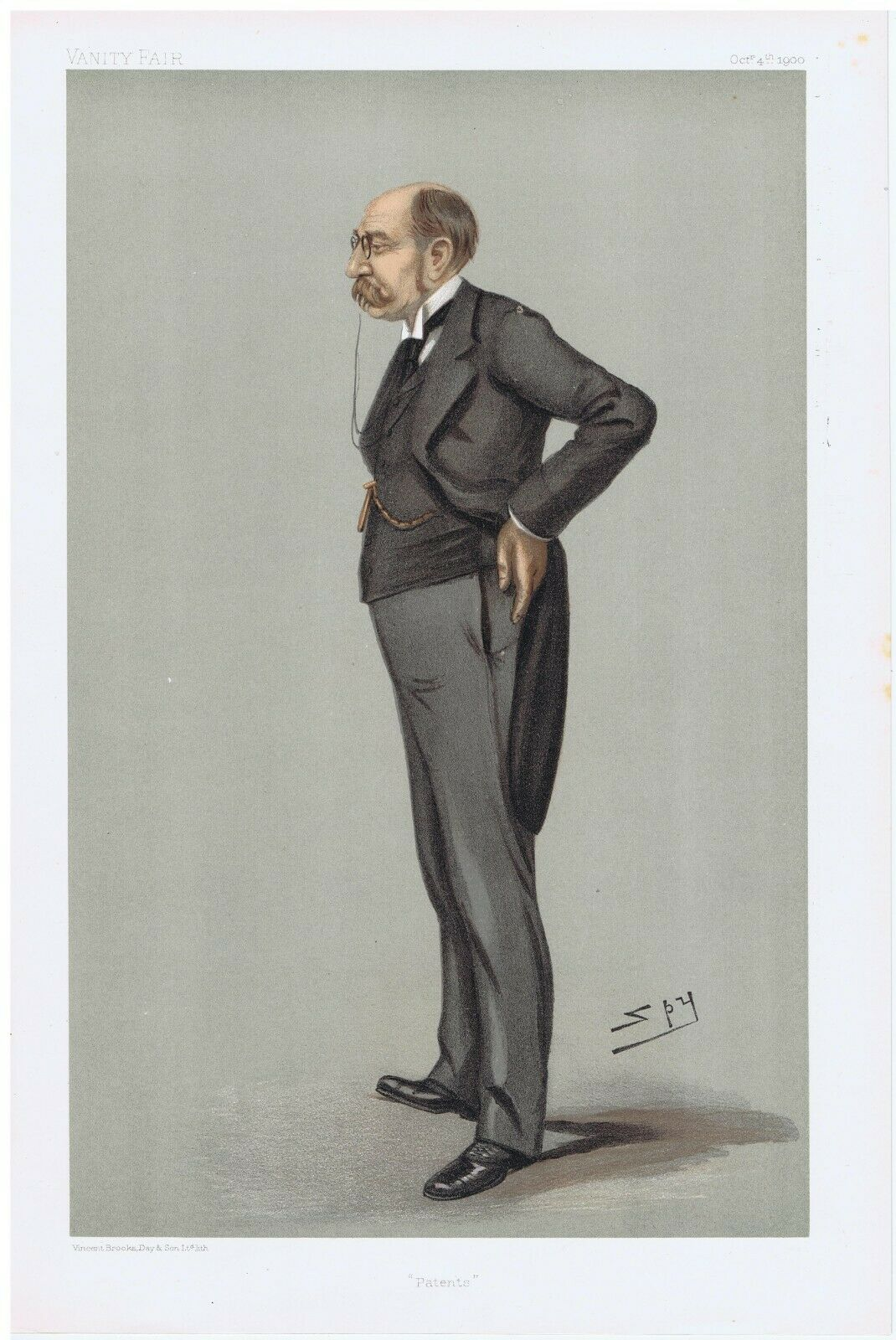 Men of the Day No.0793: Caricature of Lord Moulton. Caption reads: "Patents"